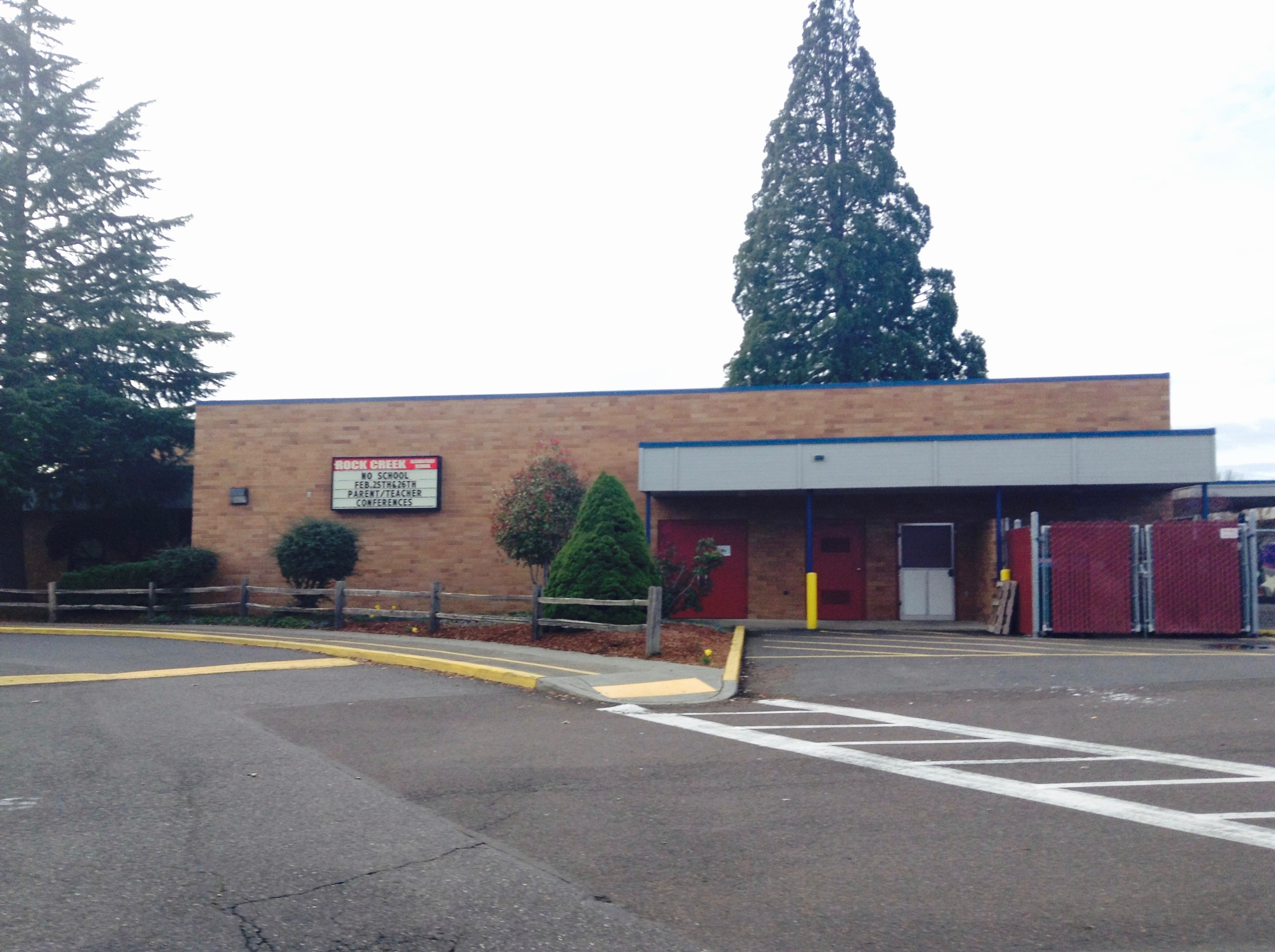 Rock Creek Elementary School, part of the Beaverton School District.